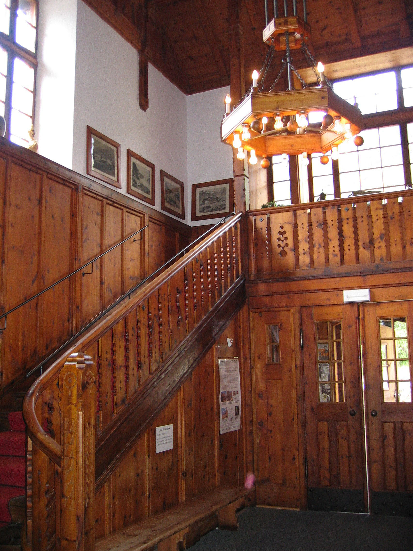 Foyer of Berliner Huette, Tyrol, Austria